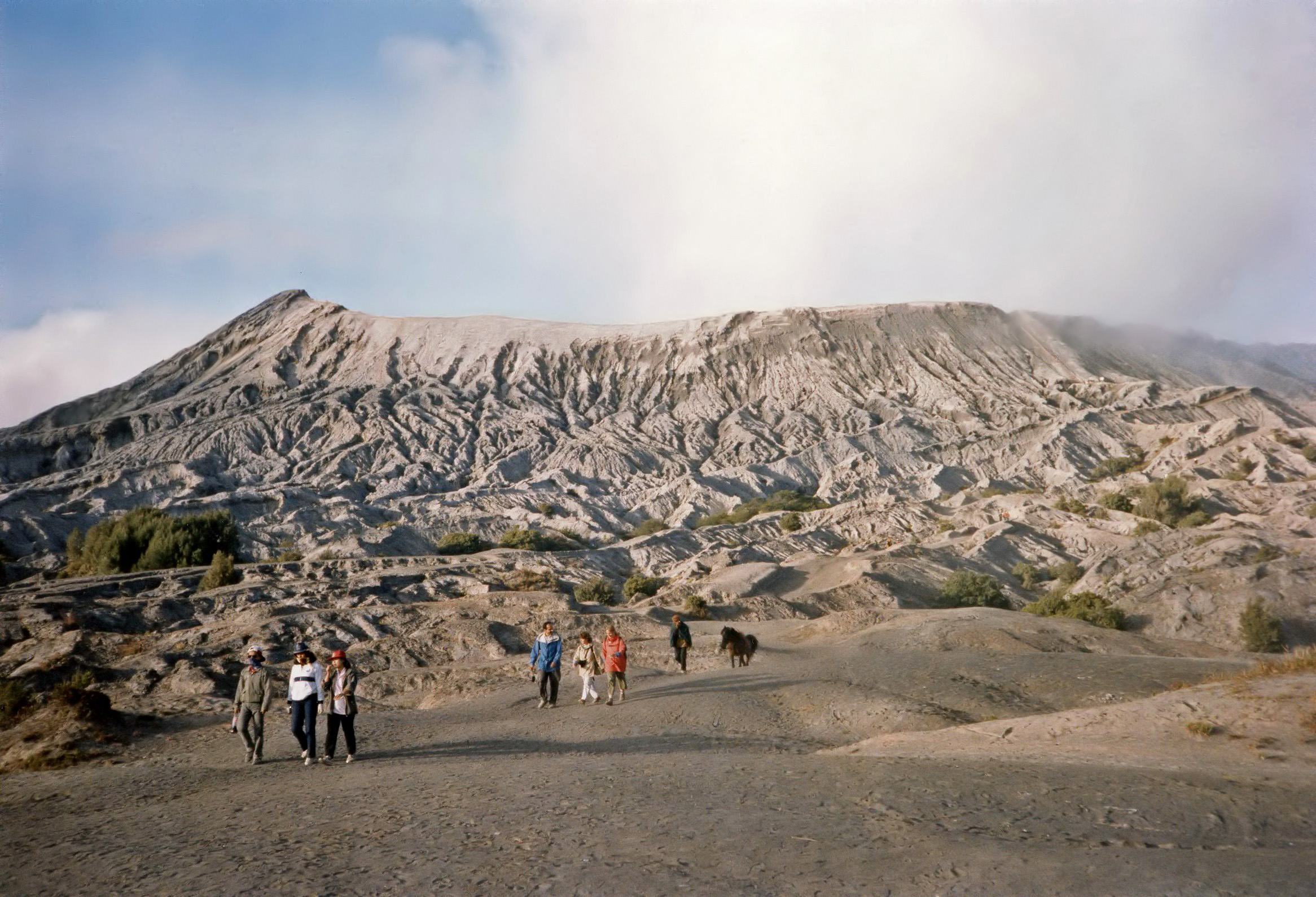 Mount Bromo in the Bromo Tengger Semeru National Park, Java, Indonesia